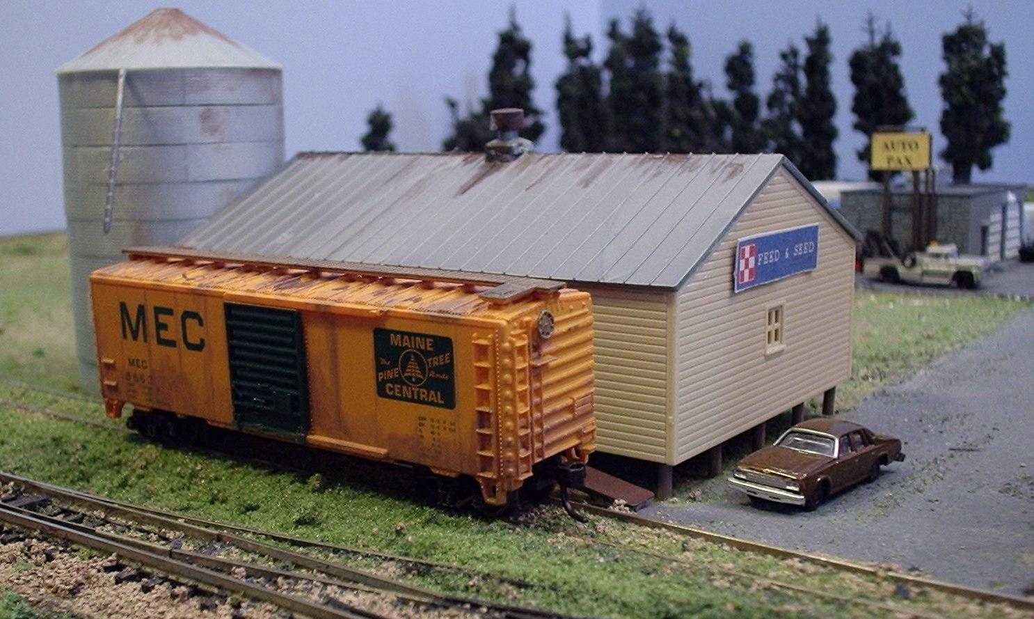 Photo by William J. Grimes